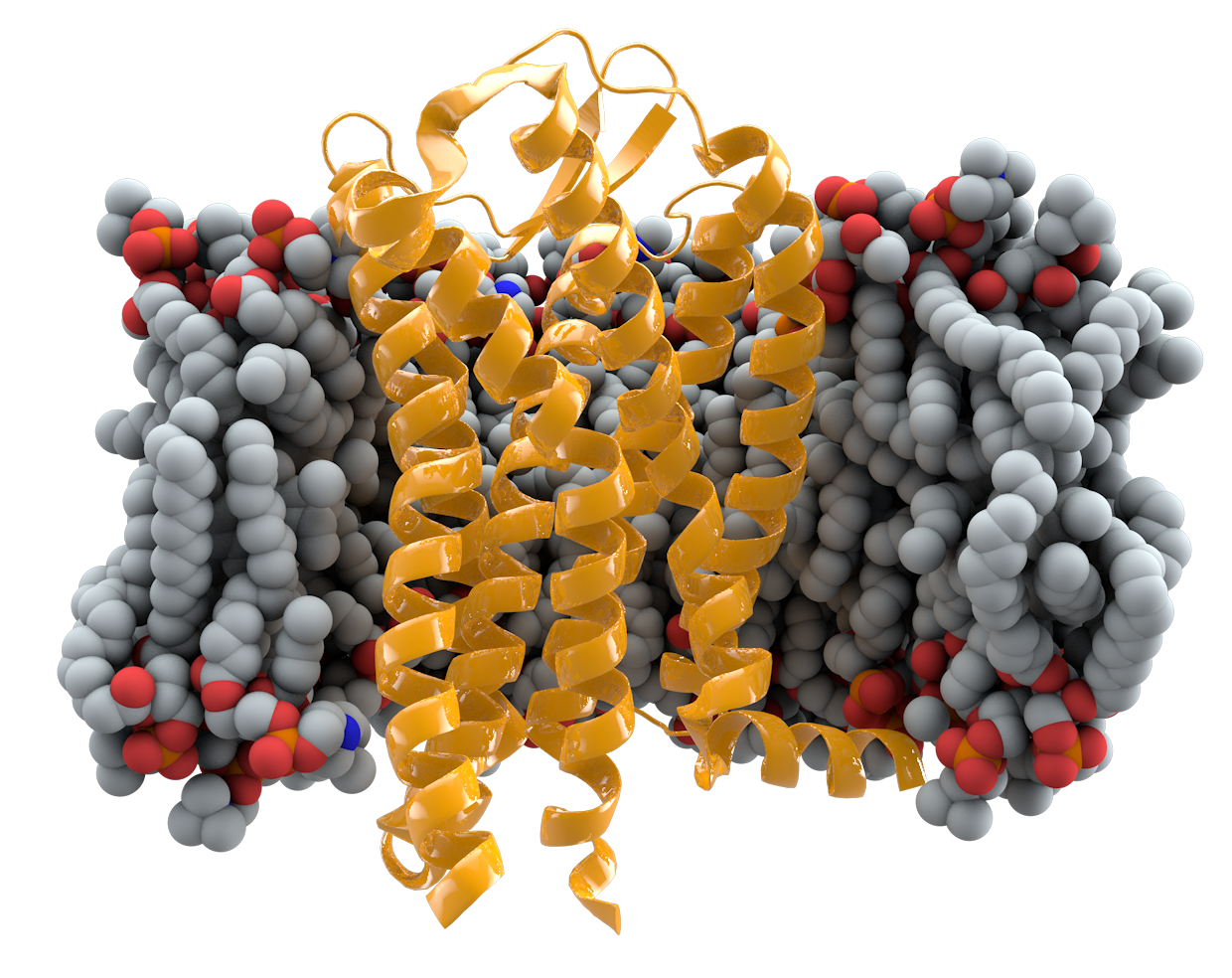 CCR5 receptor (yellow, based on PDB 4MBS) in cell membrane (grey, modeled)